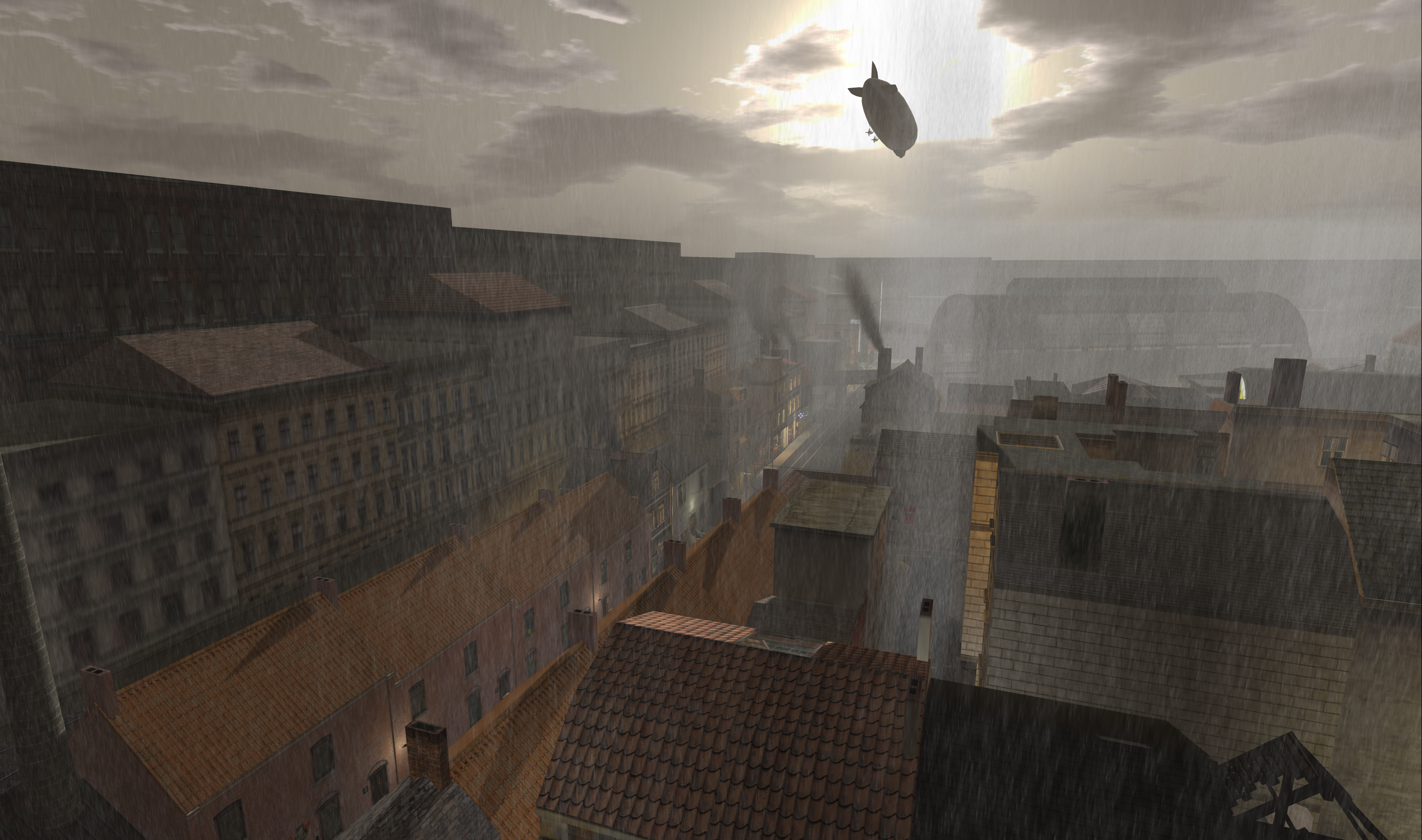 The Graf Zeppelin flies over Virtual Reality recreation a working class neighbourhood in Berlin as it might have looked in 1929. It is part of The 1920s Berlin Project, an educational roleplaying community in the online virtual world of Second Life. This sim (short for simulation) allows people from all over the world to explore Pre-Nazi era Berlin. The project was build and is managed by Jo Yardley.